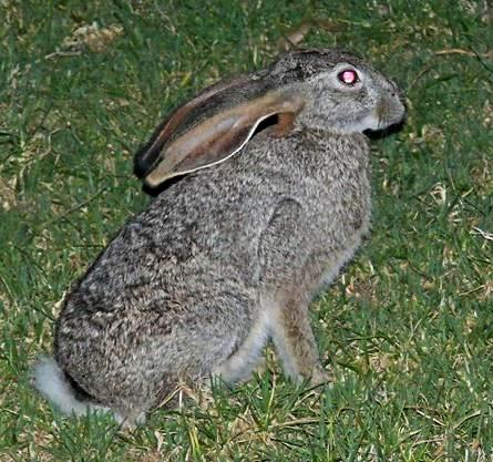 A Scrub Hare at Grootvadersbosch, Western Cape, South Africa. It is an individual of the south western population which has been isolated from others for a long time.[1] ↑ a b Collins, K., Kryger, U., Matthee, C., Keith, M. & van Jaarsveld, A. 2008. Lepus saxatilis. In: IUCN 2011. IUCN Red List of Threatened Species. Version 2011.2